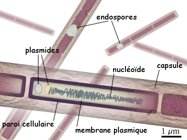 Structure of Bacillus anthracis with french annotation